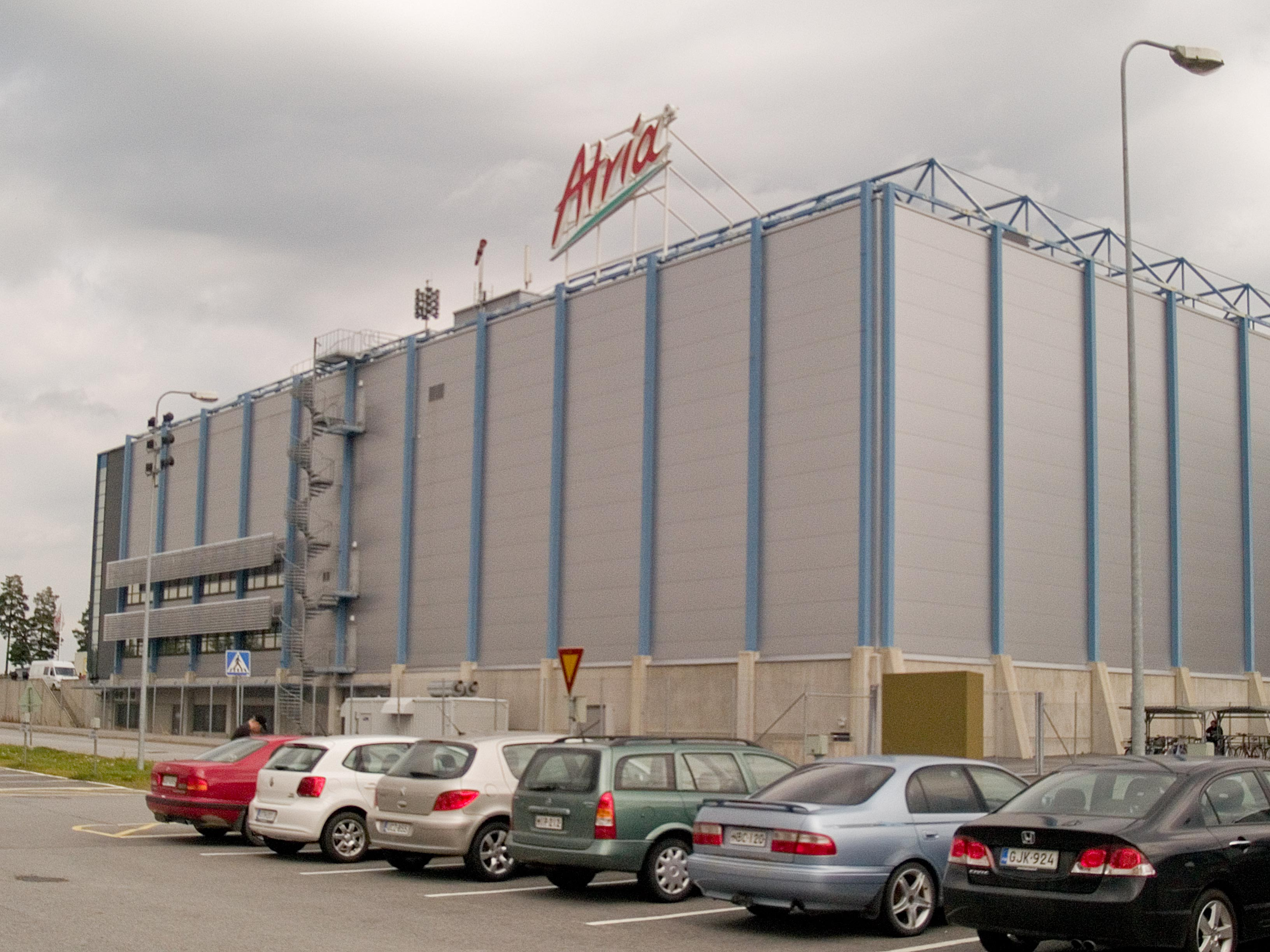 Meat processing plant of Atria Oyj in Nurmo, Seinäjoki, Finland.